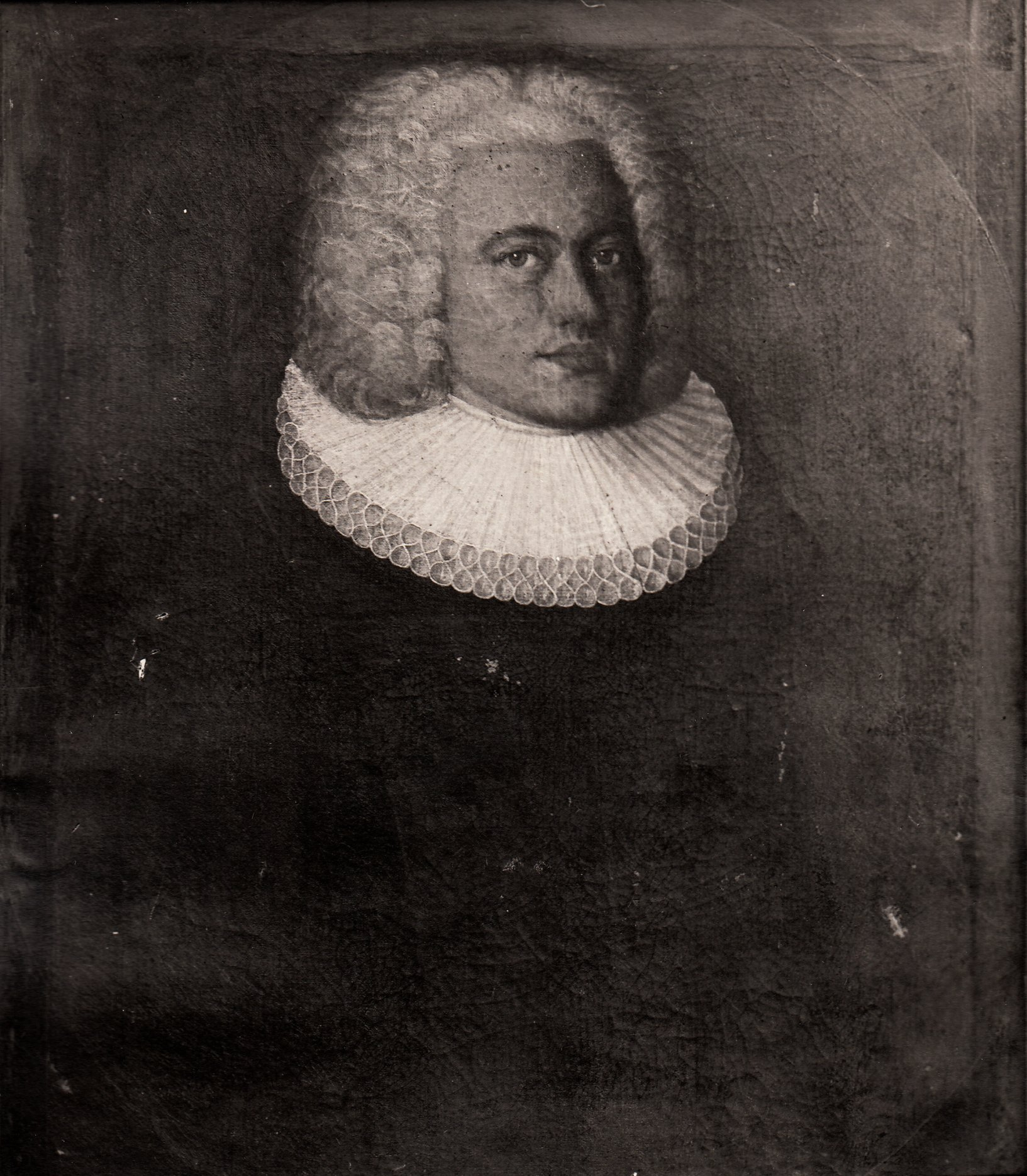 Format: Fotopositiv Dato / Date: 1897 Fotograf / Photographer: Erik Olsen (1835 - 1920) Sted / Place: Trondheim Eier / Owner Institution: Trondheim byarkiv, The Municipal Archives of Trondheim Arkivreferanse / Archive reference: Tor.H41.B41.F3012 Merknad: Oppgitt å være prest på Rødøy i Helgeland. Kan det være Jacob Herman Munch (d. 1755)? Jacob Herman Munch (1730-1755) f. xxxx, d.1755 G. 1. Sophie Hammond (f. xxxx, d. xxxx) Minst 1 barn: Susanne Pauline. G. 2. Anna Petrine Kraft (f. xxxx, d. xxxx) Minst 1 barn: Fredrikke Lovise. Kilde: Prester i Rødøy